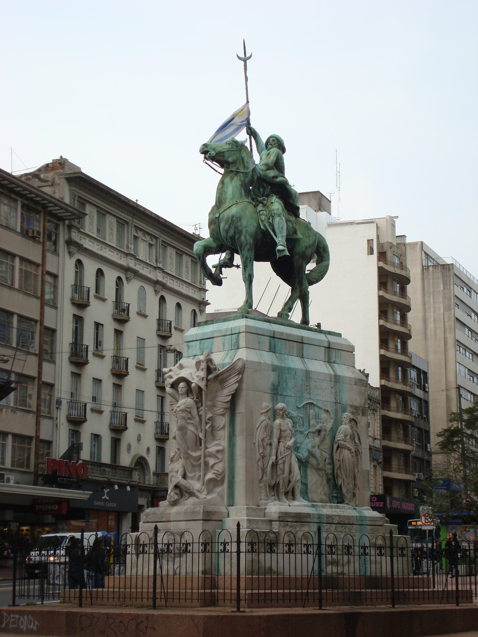 The statue of The Gaucho, by José Luis Zorrilla de San Martin, situated at 18 de Julio Avenue, Montevideo.